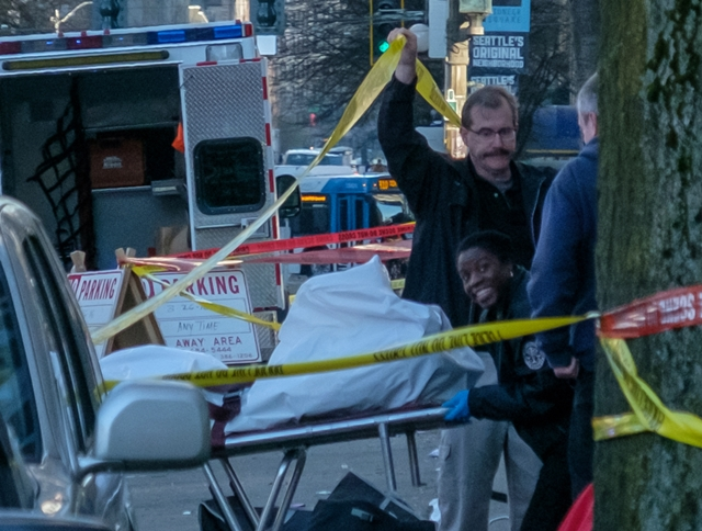 King County Medical Examiner staff member moving a body in Seattle in 2016